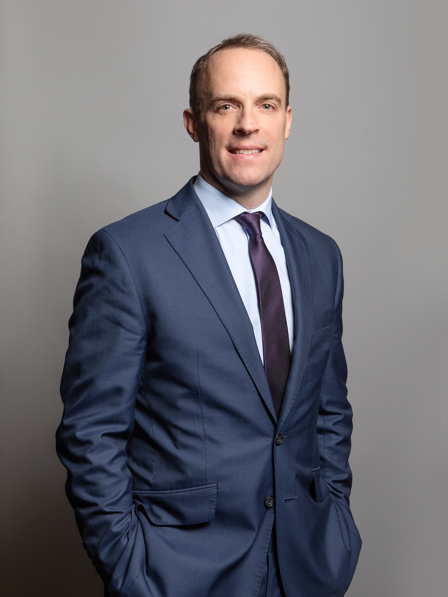 Official portrait of Rt Hon Dominic Raab MP Full sized portrait of Dominic Raab